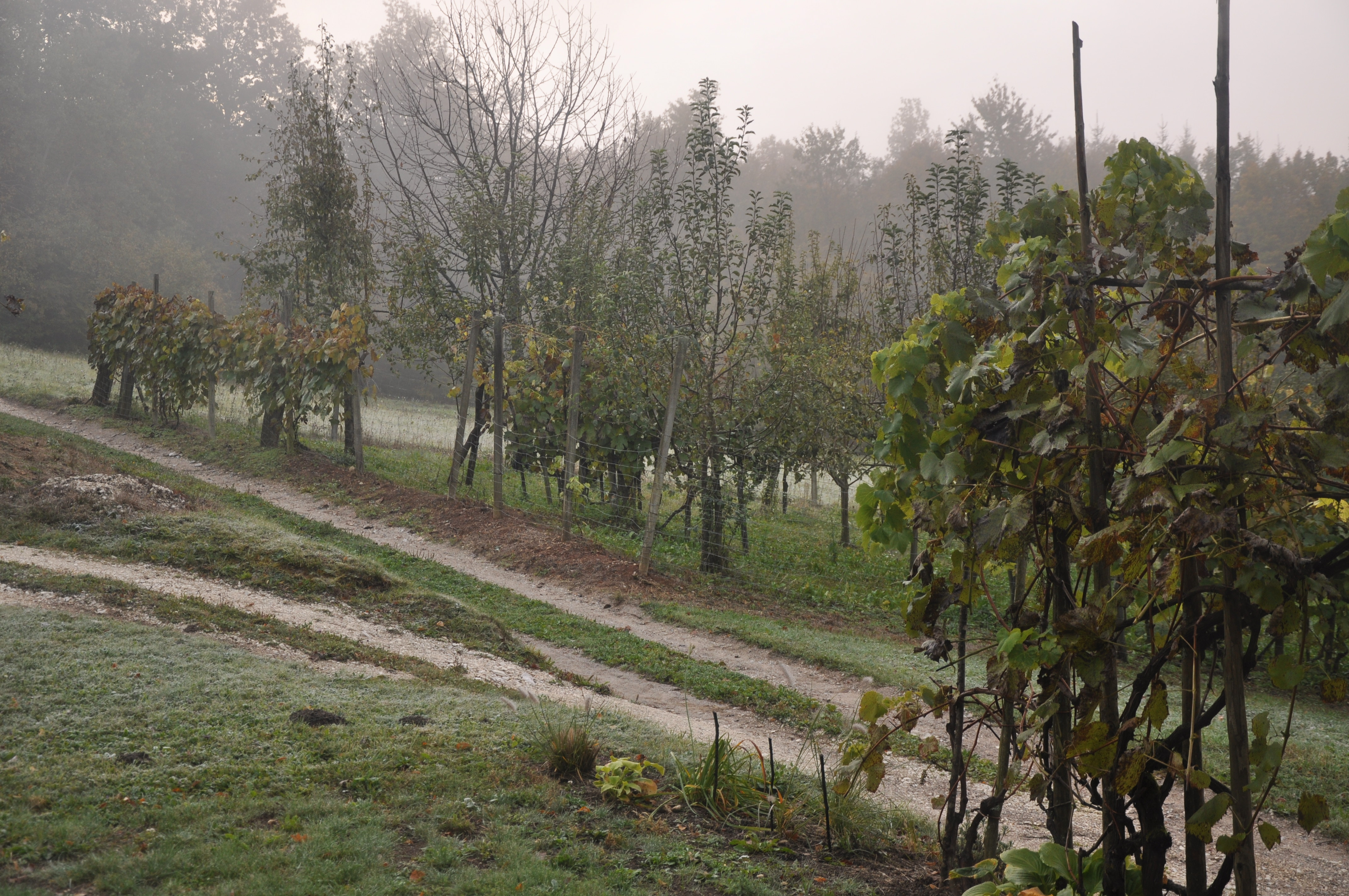 being awake alone on one too early morning